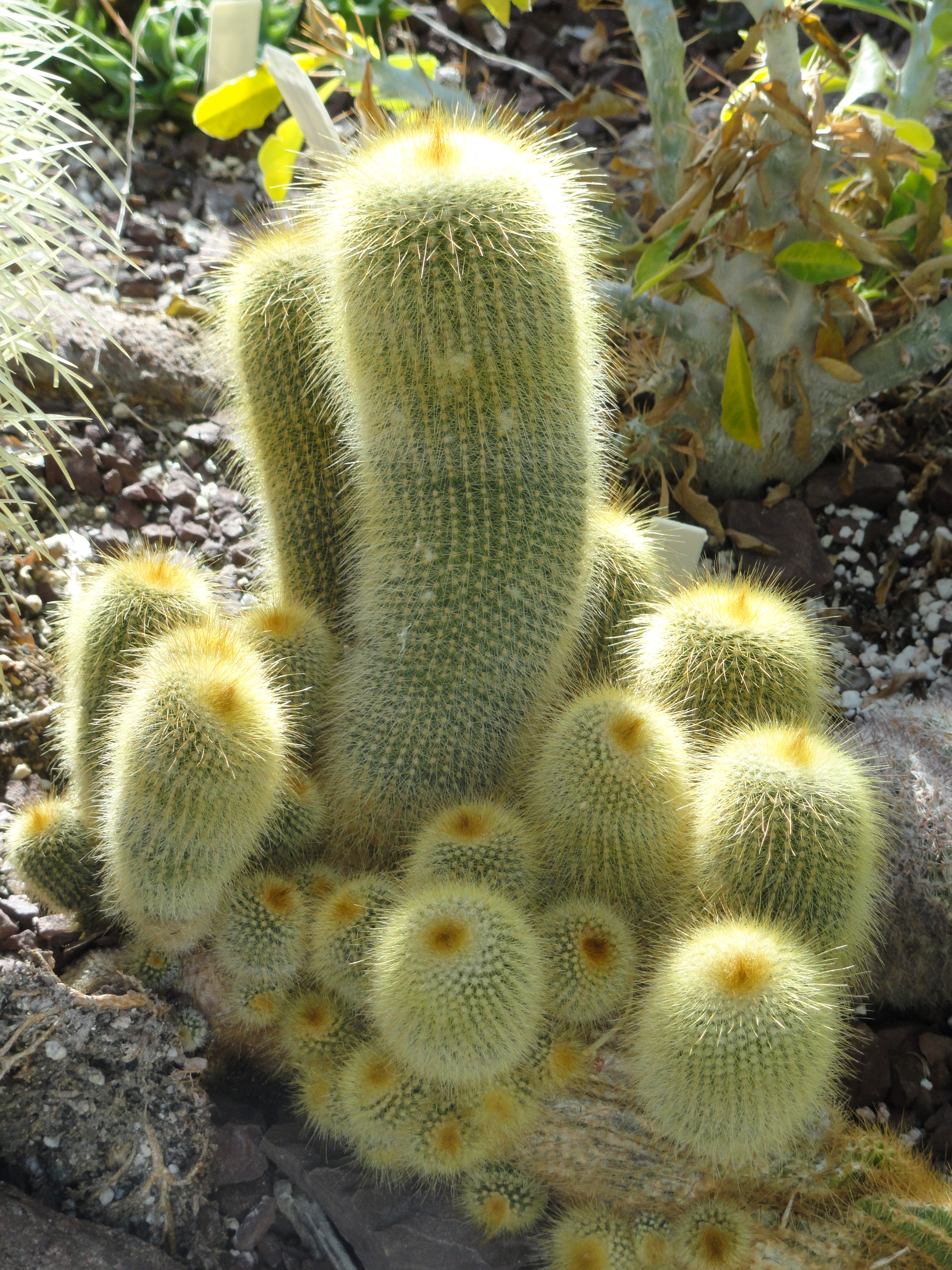 Botanical specimen in the Lyman Plant House, Smith College, Northampton, Massachusetts, USA.